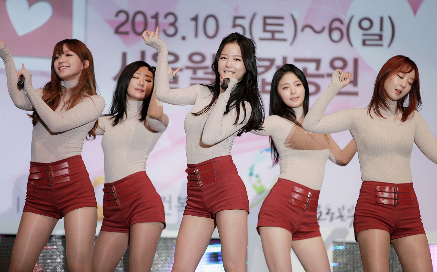 EXID (South Korean girl group) in October 2013